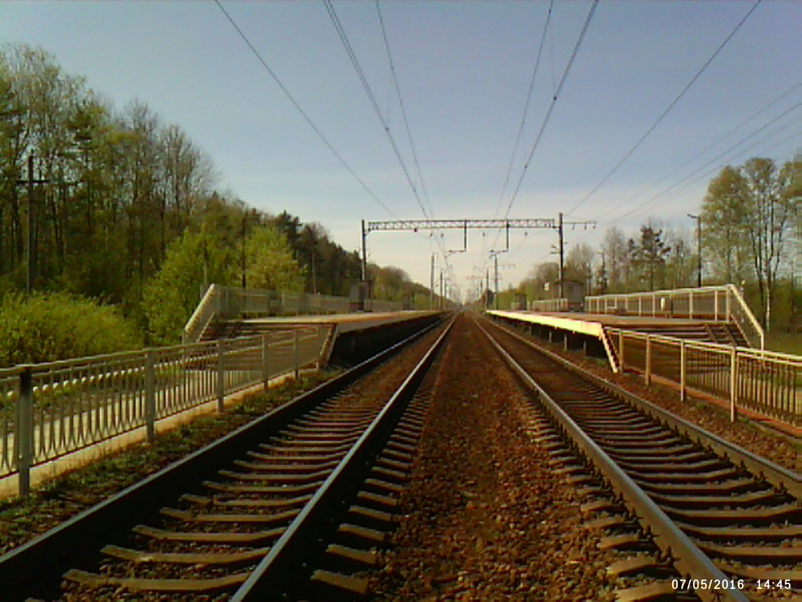 The railway platform Krasnye Zori 1